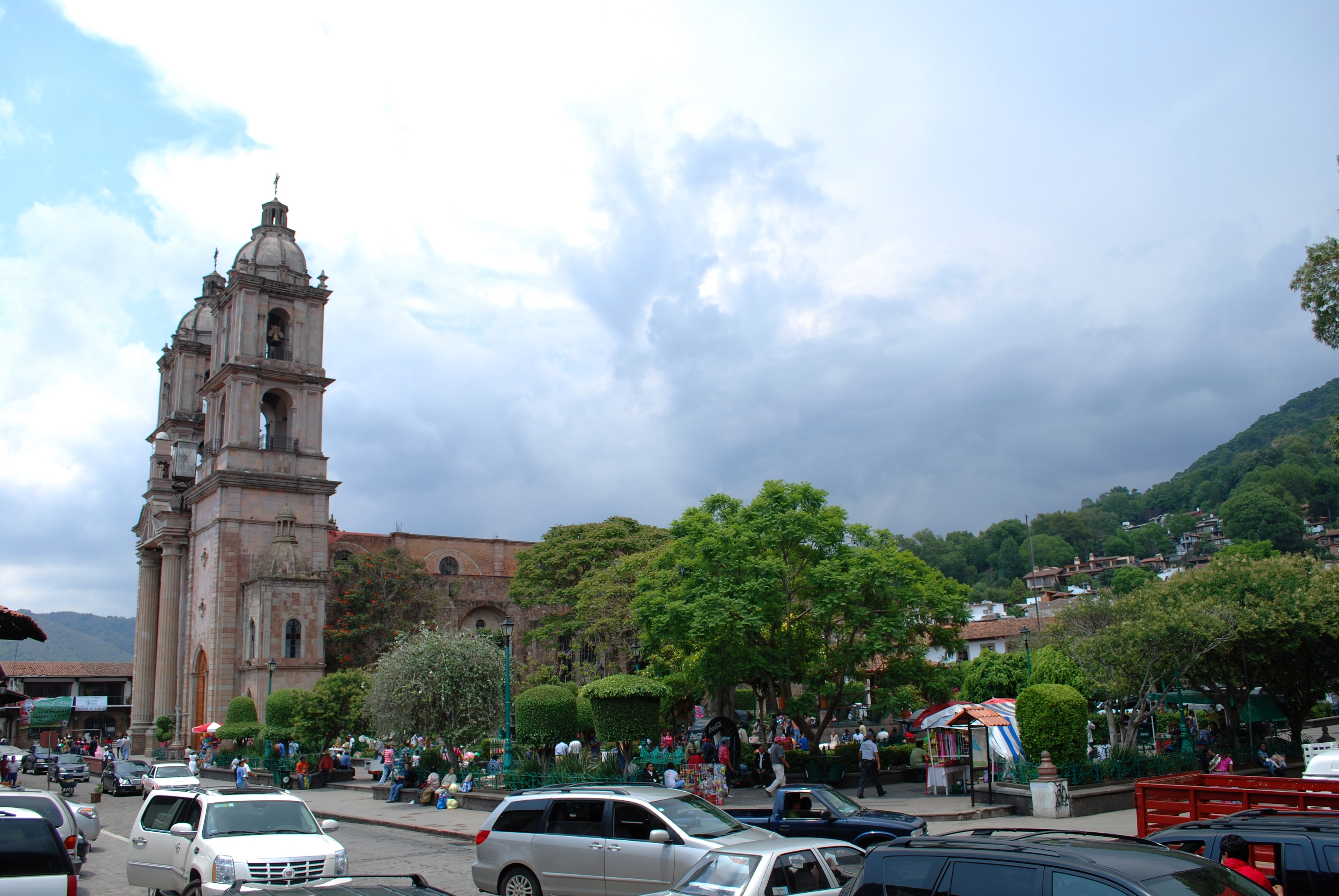 Plaza de Independencia and San Francisco de Asís church in Valle de Bravo, Mexico